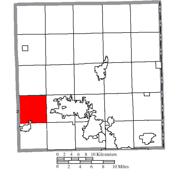 Map of the municipal and township boundaries of Trumbull County, Ohio, United States, as of the 2000 census, with the location of Braceville Township highlighted. Township borders are shown only in unincorporated areas in order to differentiate incorporated and unincorporated areas more clearly.